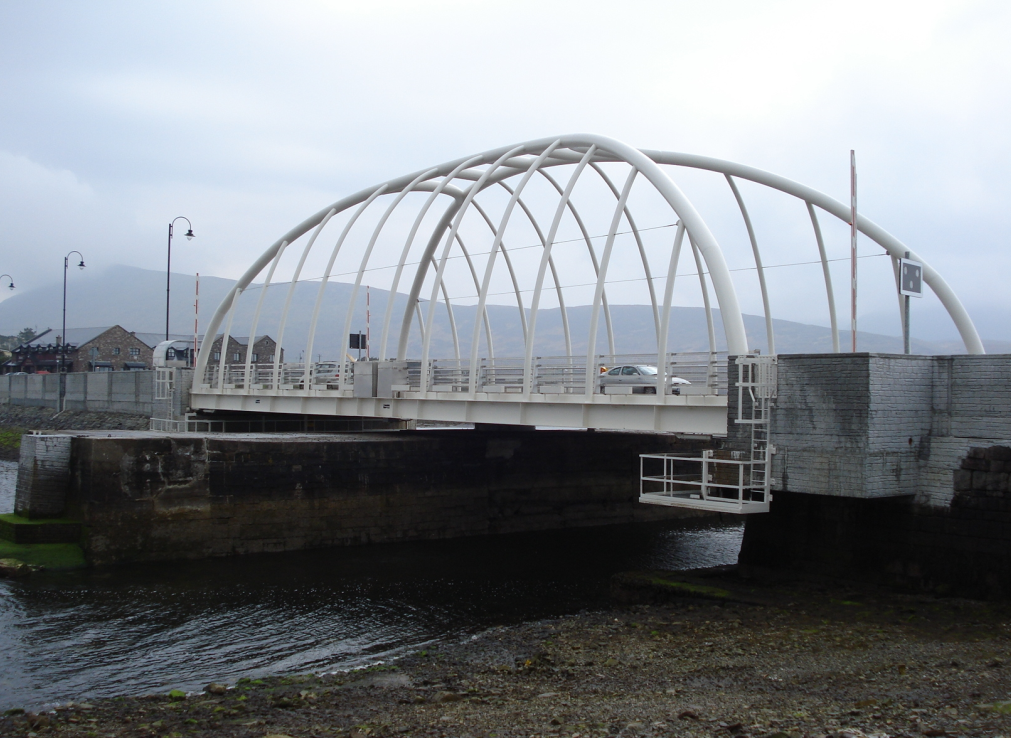 The new (third) Michael Davitt Bridge over the Achill Sound